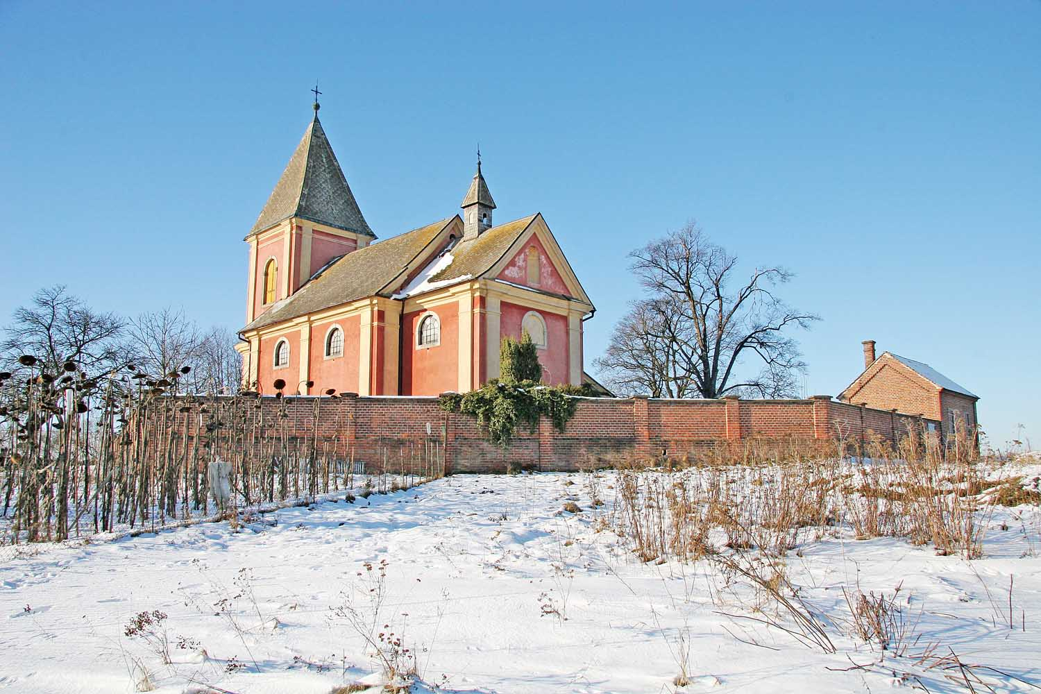 Saint George church in village of Hrádek, Hradec Králové District, the Czech Republic.